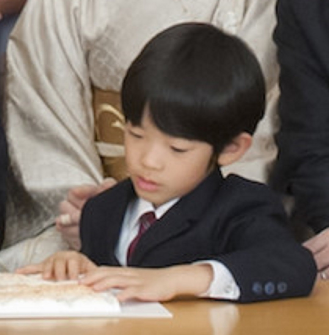 Prince Hisahito of Akishino日本悠仁亲王